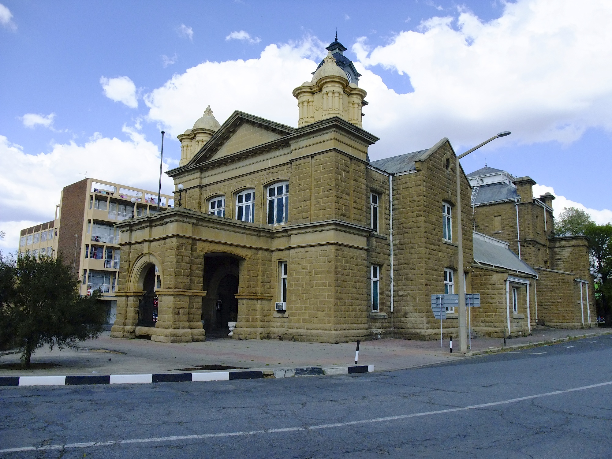 Town Hall, Church Street, Kroonstad This media shows a South African Protected Site with SAHRA file reference 9/2/324/0008.